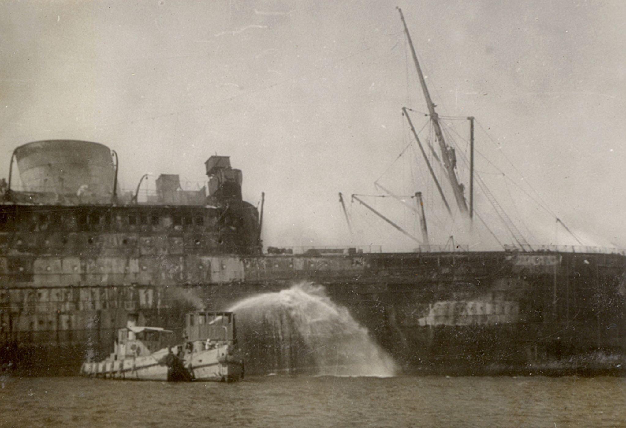 MV Georgic ablaze, as seen from the deck of HMAS Hobart, Port Tewfik, Egypt.